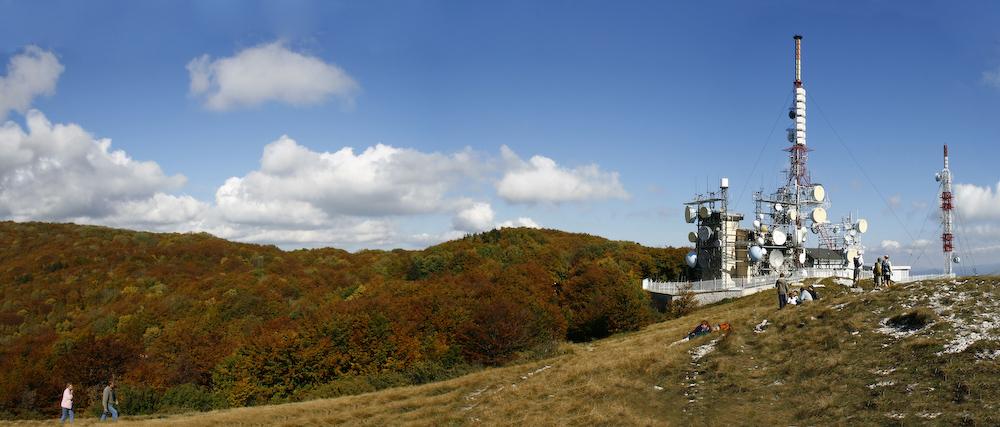 Nanos